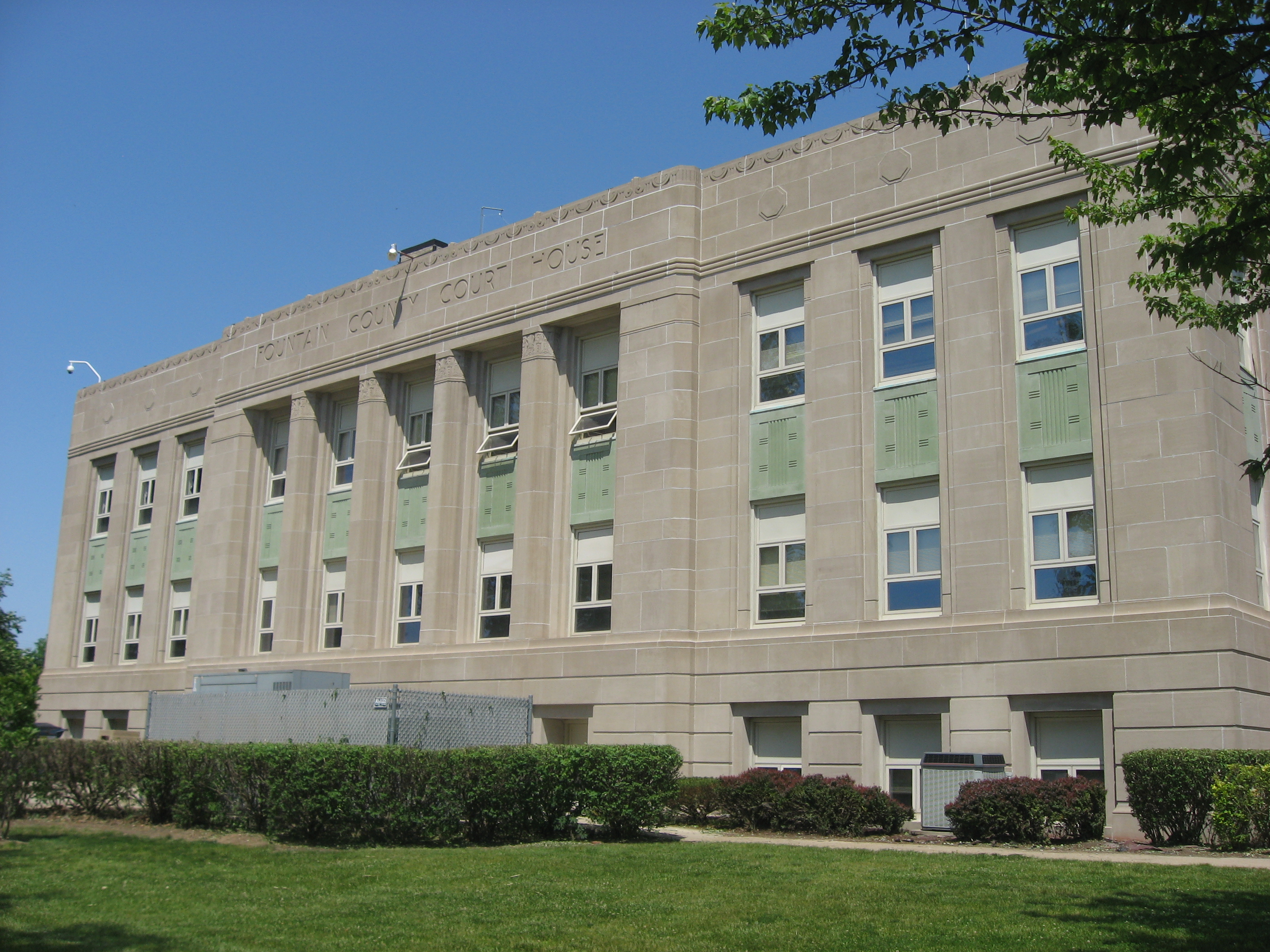 Front of the Fountain County Courthouse, located along U.S. Route 136 on Courthouse Square in Covington, Indiana, United States. Built in 1937 by the Public Works Administration, it is listed on the National Register of Historic Places.